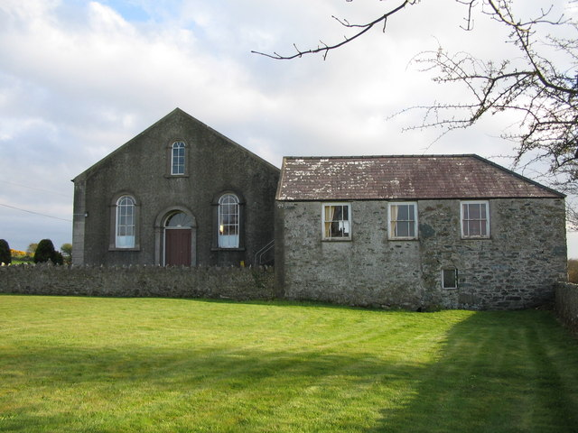 Jerwsalem A view looking to the south from within the graveyard of Jerwsalem Methodist Chapel.